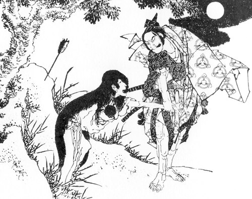 "Urabe no Suetake and Ubume (the spirit of a woman who died in childbirth)" from the Wakan-ehon-Sakigake